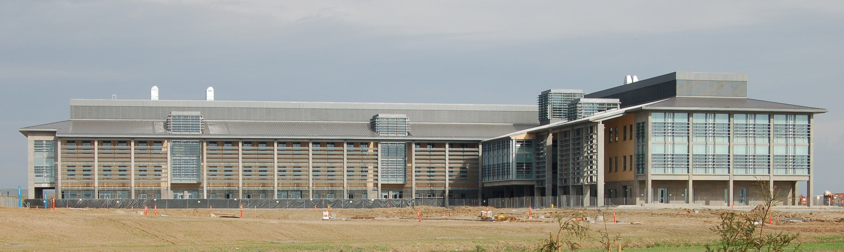 The University of California, Merced Science and Engineering building, photographed from the west on January 30, 2006 by Joshua Swink.